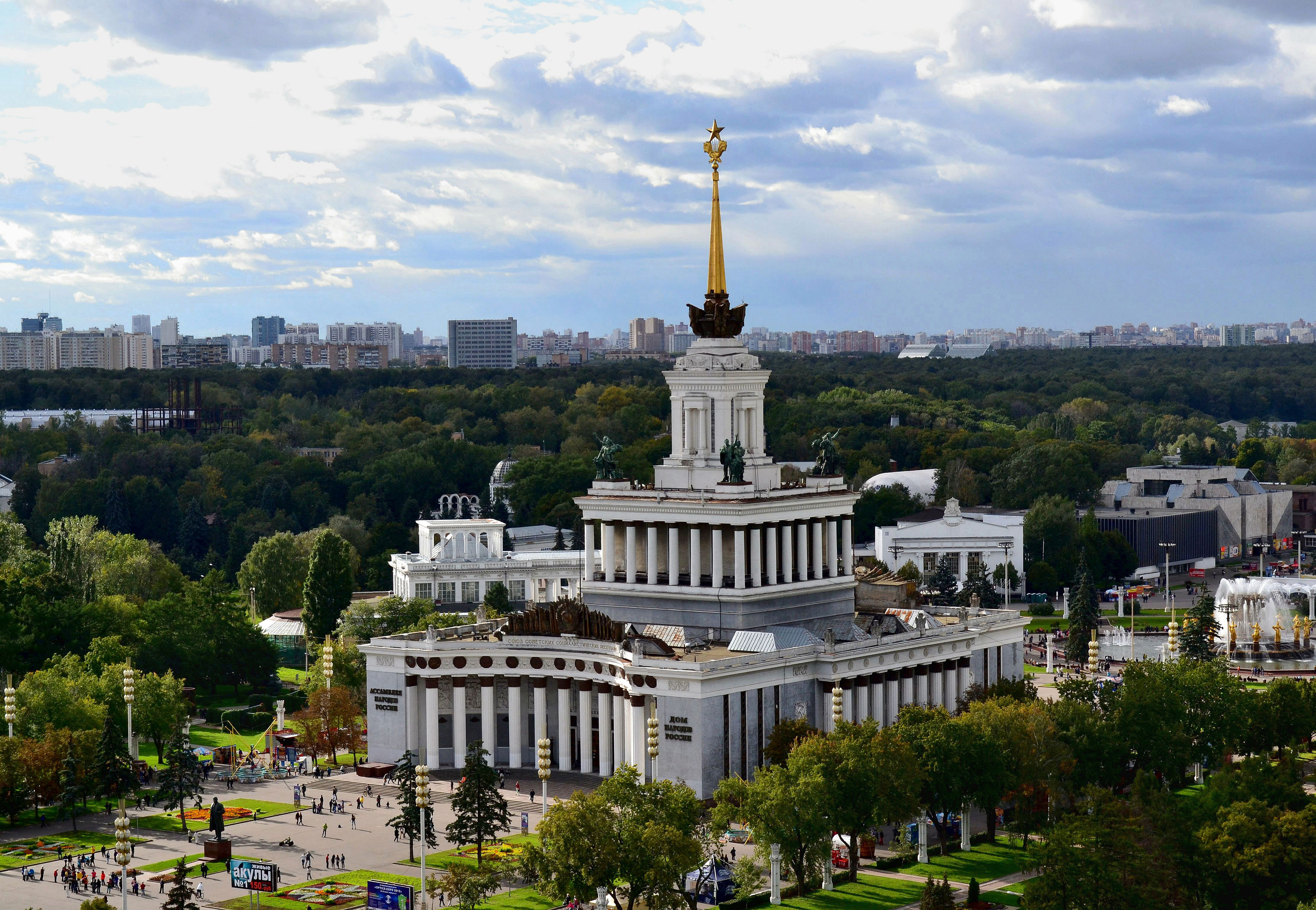 Moscow. VDNKh (the Exhibition of Achievements of the People's Economy). The Central Pavilion. Architects G. V. Shchuko and Ye. А. Stolyarov. 1951—1954.